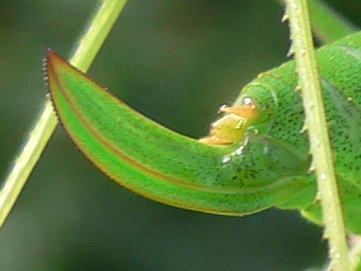 Schlesischer Busch, Alt-Treptow, Berlin, Germany – ovipositor, female Leptophyes punctatissima; image cropped, sharpened